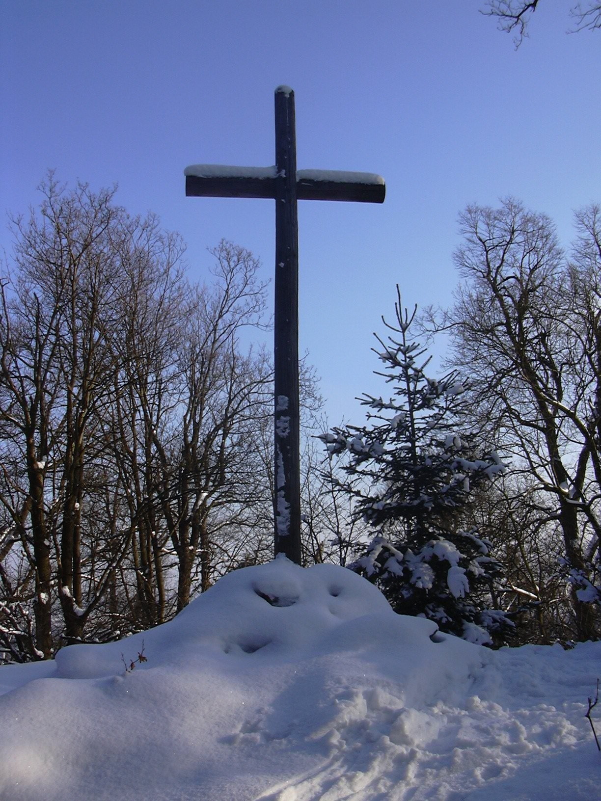 Wooden cross on the summit of Kuchyňka in Brdy